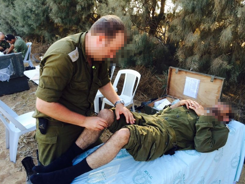 During Operation Protective Edge, many IDF soldiers were lightly injured. After medical treatment by IDF medics, they returned to combat in Gaza with their fellow soldiers. 29/7/2014 For more updates: The Israel Defense Forces Facebook The Israel Defense Forces blog Follow us on Twitter